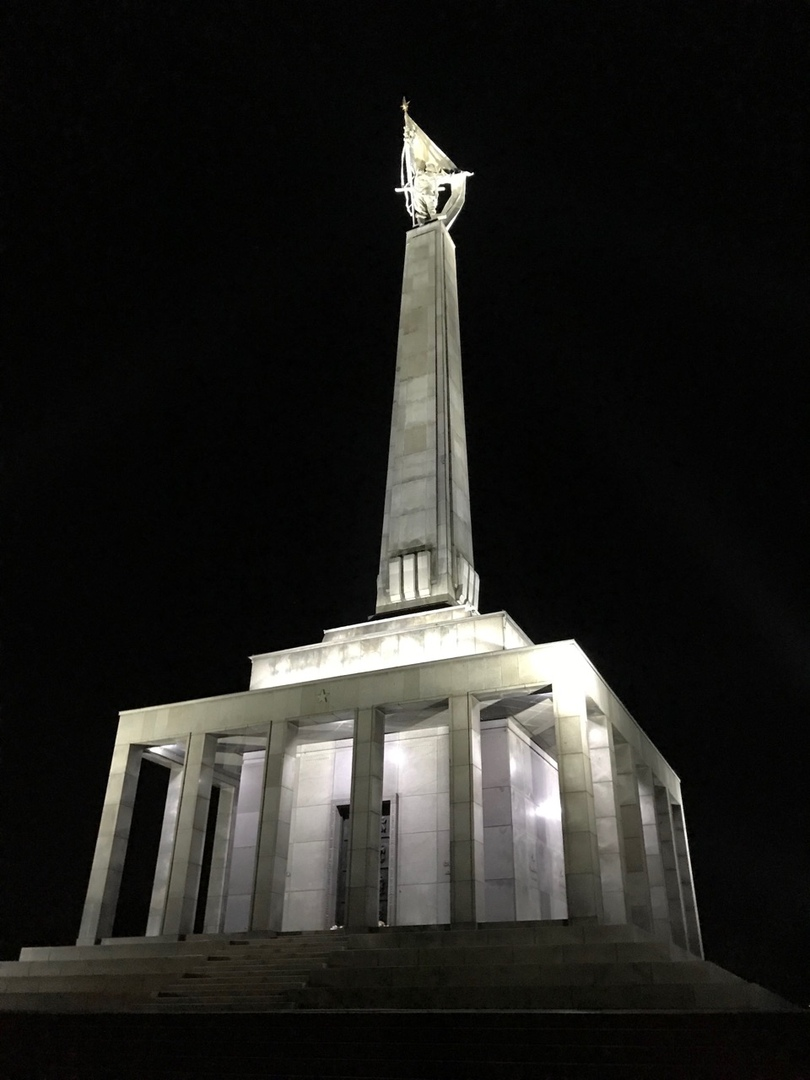 Slavin